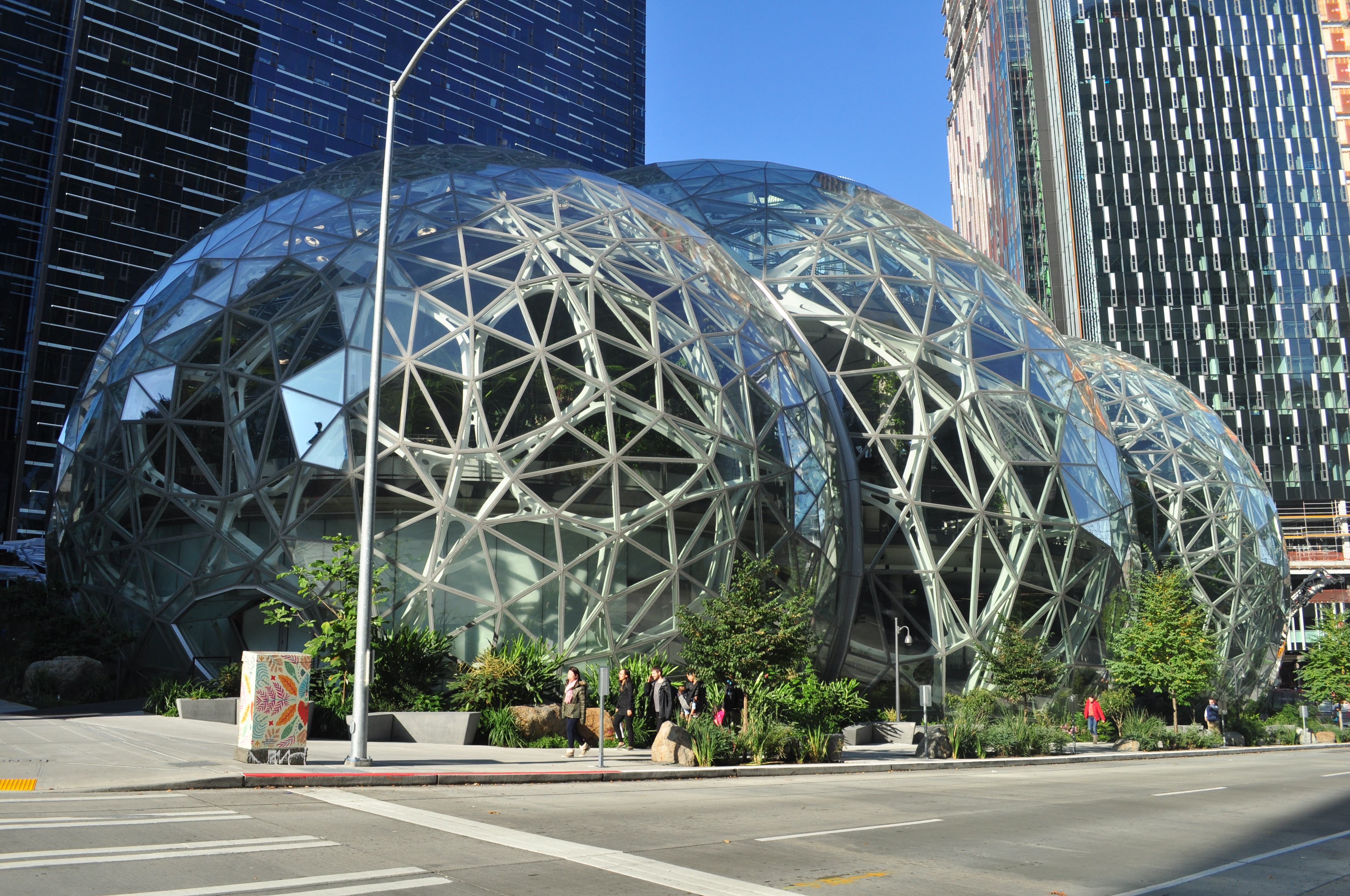 Amazon Spheres from the Sixth Street side, Seattle, Washington, U.S.